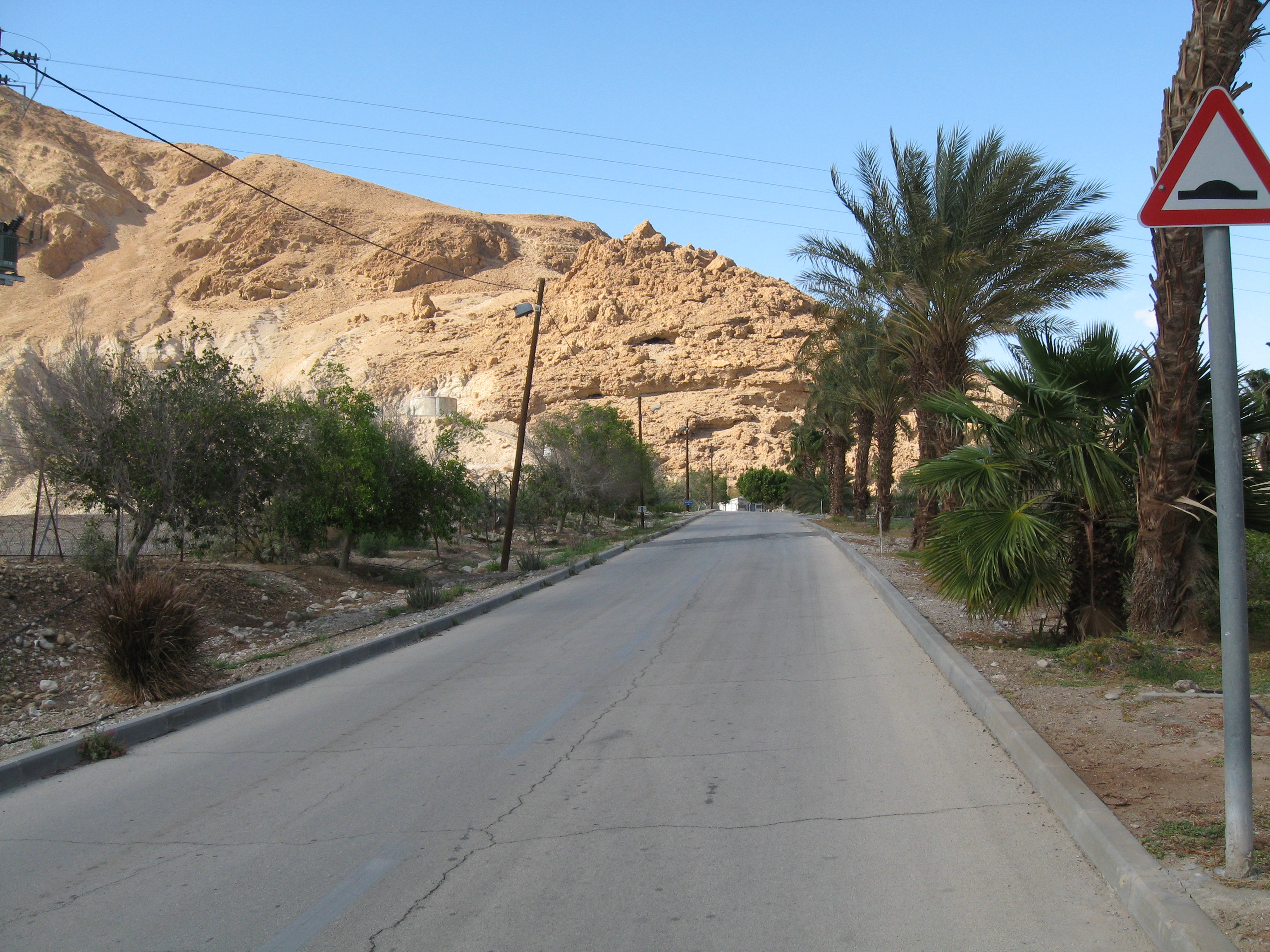 The view from the settlement